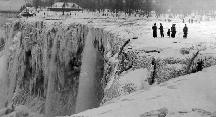 Frozen Niagara Falls 1911 Flickr data on 2011-08-13 Tags: Old picture, 1911, Public Domain License: CC BY-SA 2.0 User: paukrus Ruslan